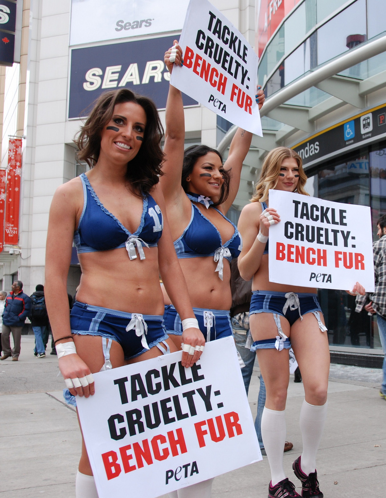 Toronto Triumph team members.